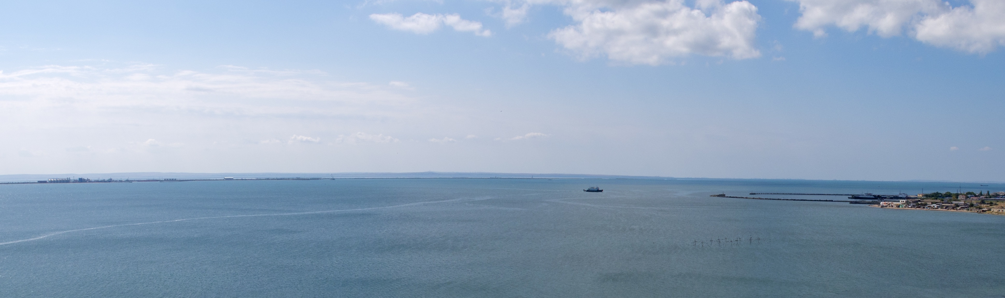 Kerch ferry line across Kerch Strait. On the left side Port Kavkaz harbor is visible on Russian coast, on the right side Kerchensky-2 ferry is approaching Port Krym (Ukraine)